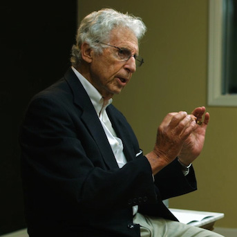 Still taken from video of Roy Masters speaking at a lecture in Selma, Oregon in 2014.